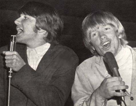 An unidentified person named "Gene" and Larry Norman